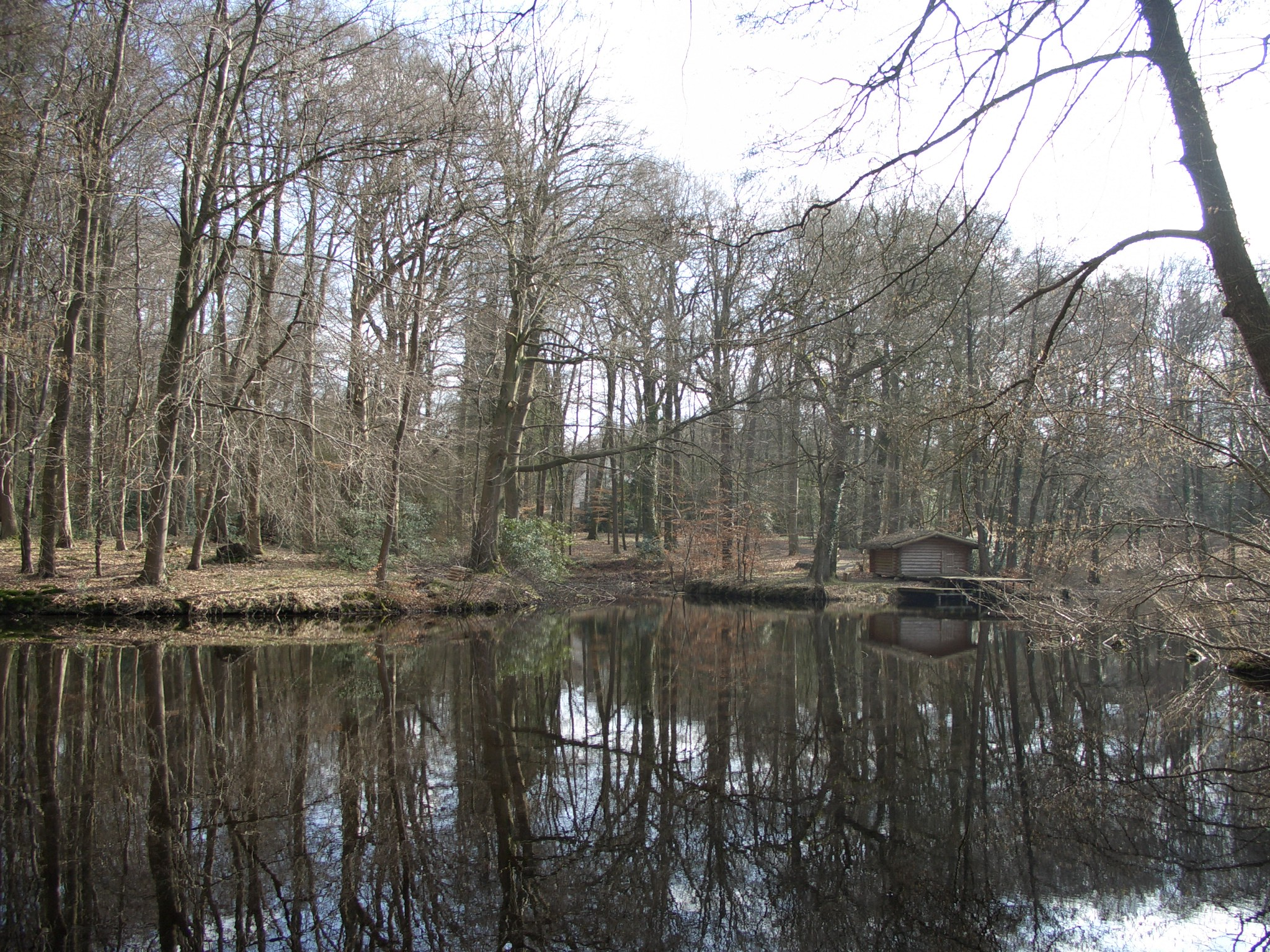 bathing pond of Herrenhaus Hohehorst